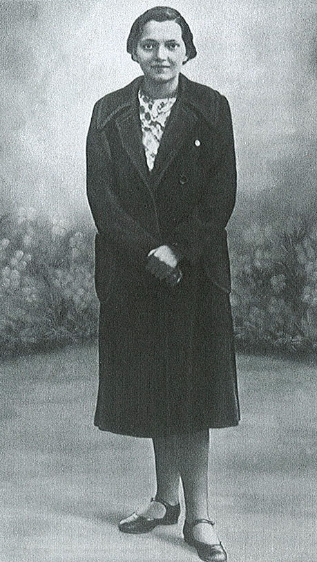 Picture of Angelina Pirini